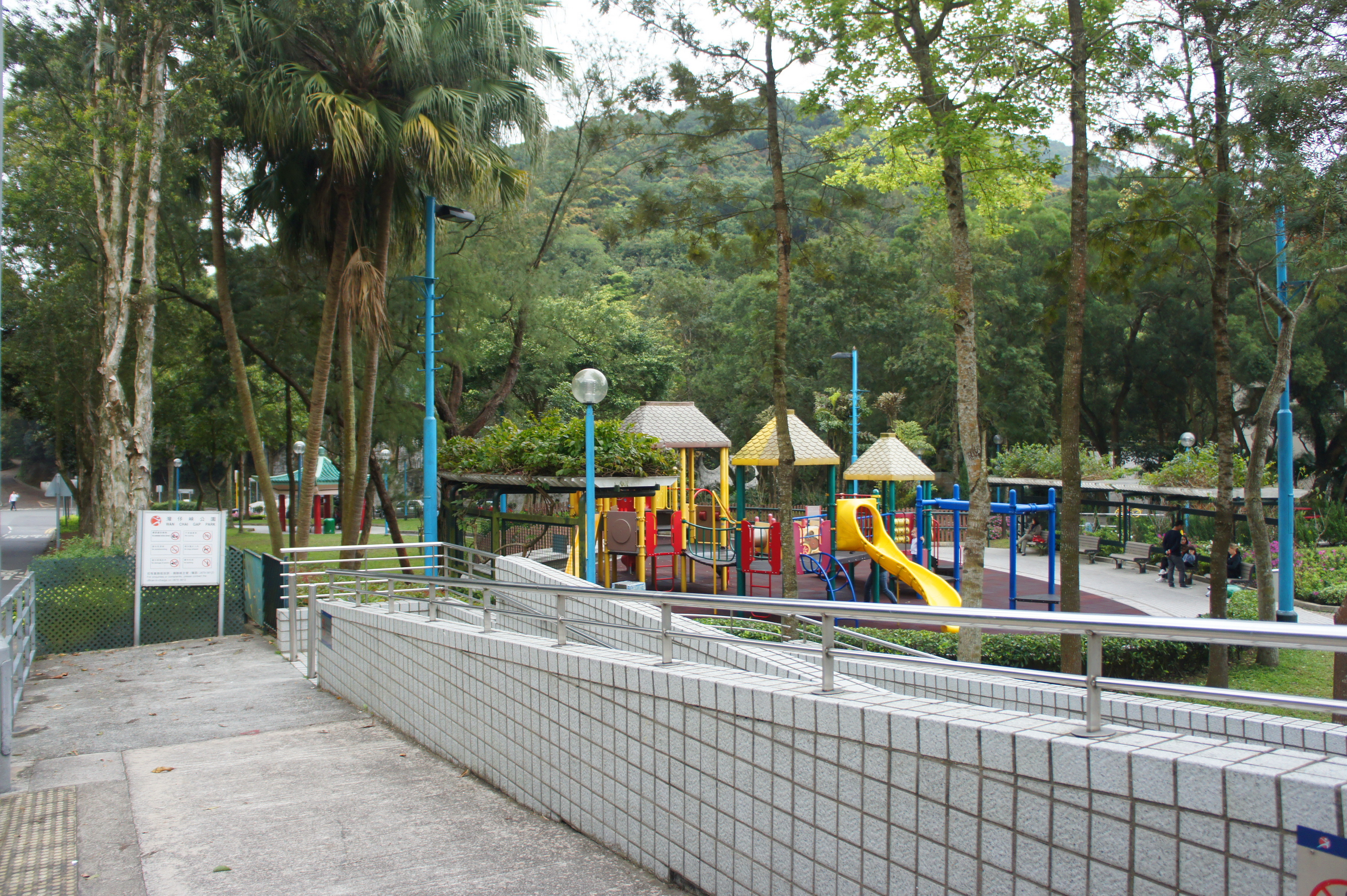 Wan Chai Gap Park, Wan Chai, Hong Kong.